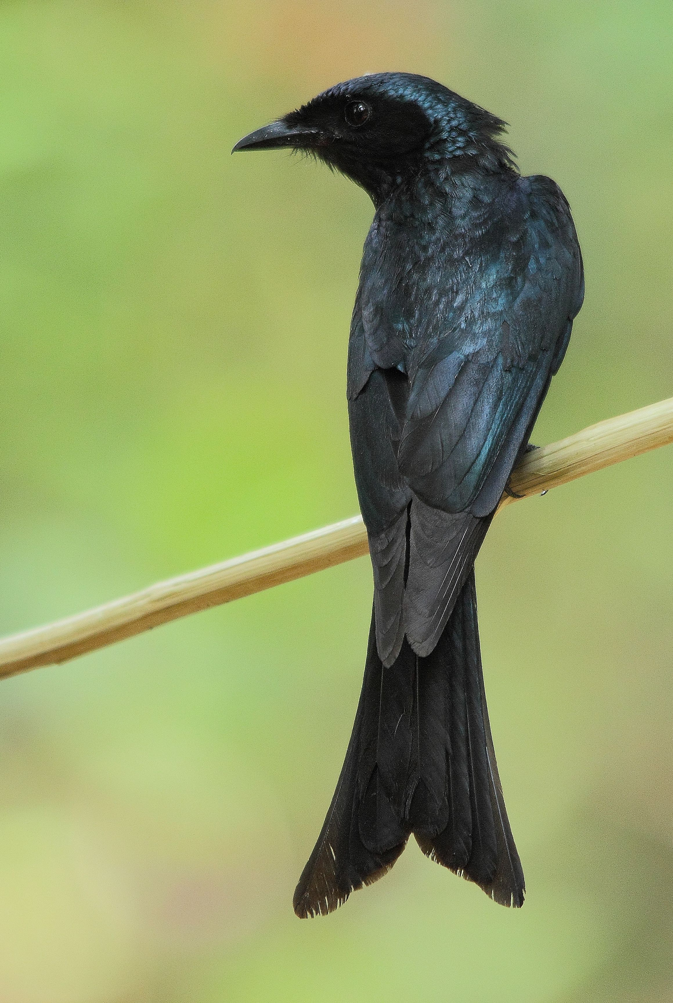 The Bronzed Drongo (Dicrurus aeneus) is a small Indomalayan bird belonging to the drongo group.They are resident in the forests of the Indian Subcontinent and Southeast Asia